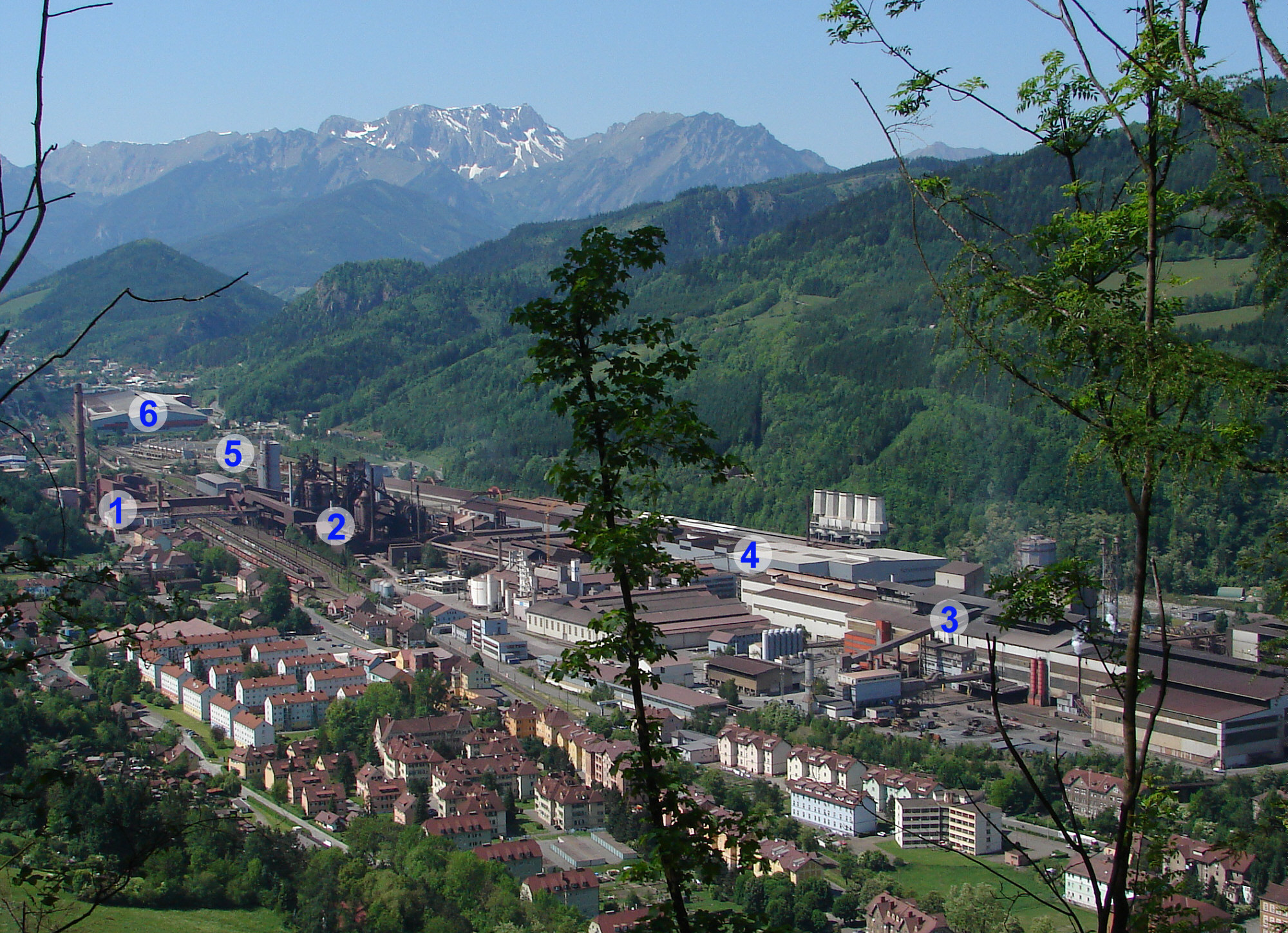 The iron and steel works of Donawitz near Leoben in Styria, Austria